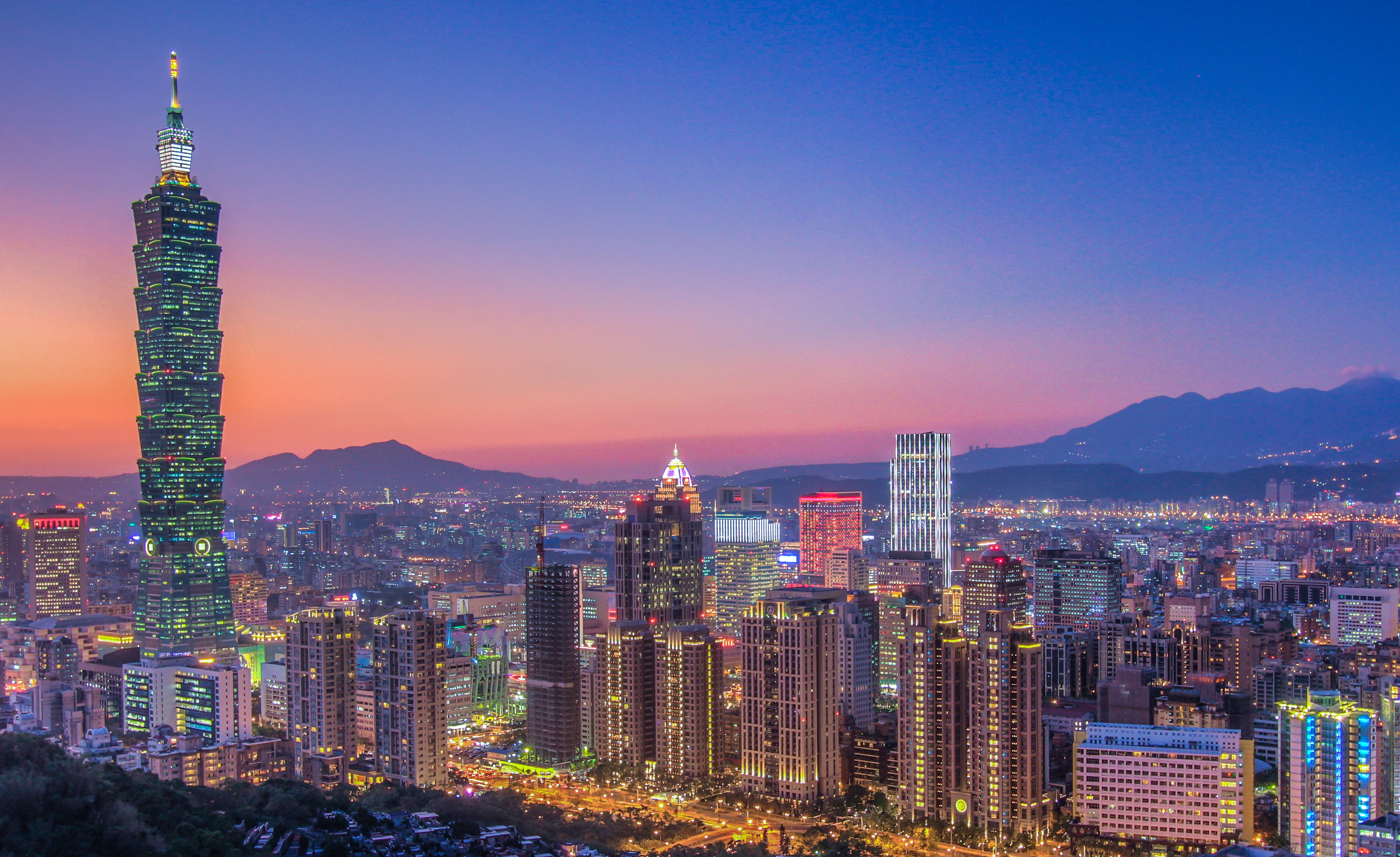 Twilight skyline of Taipei, Taiwan taken from Mt. Elephant in 2015